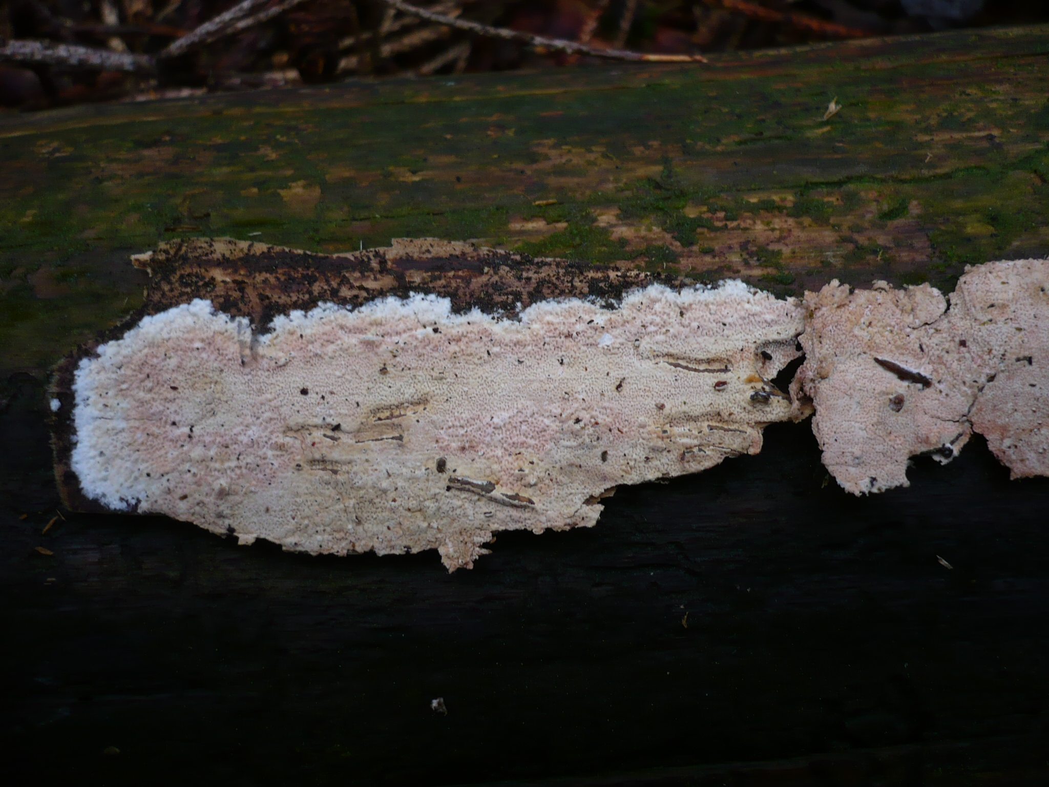 The fungus Ceraceomyces sublaevis (Bresadola) Jülich. Specimen photographed in Pohori na Sumave, Southern Bohemia, Czech Republic.